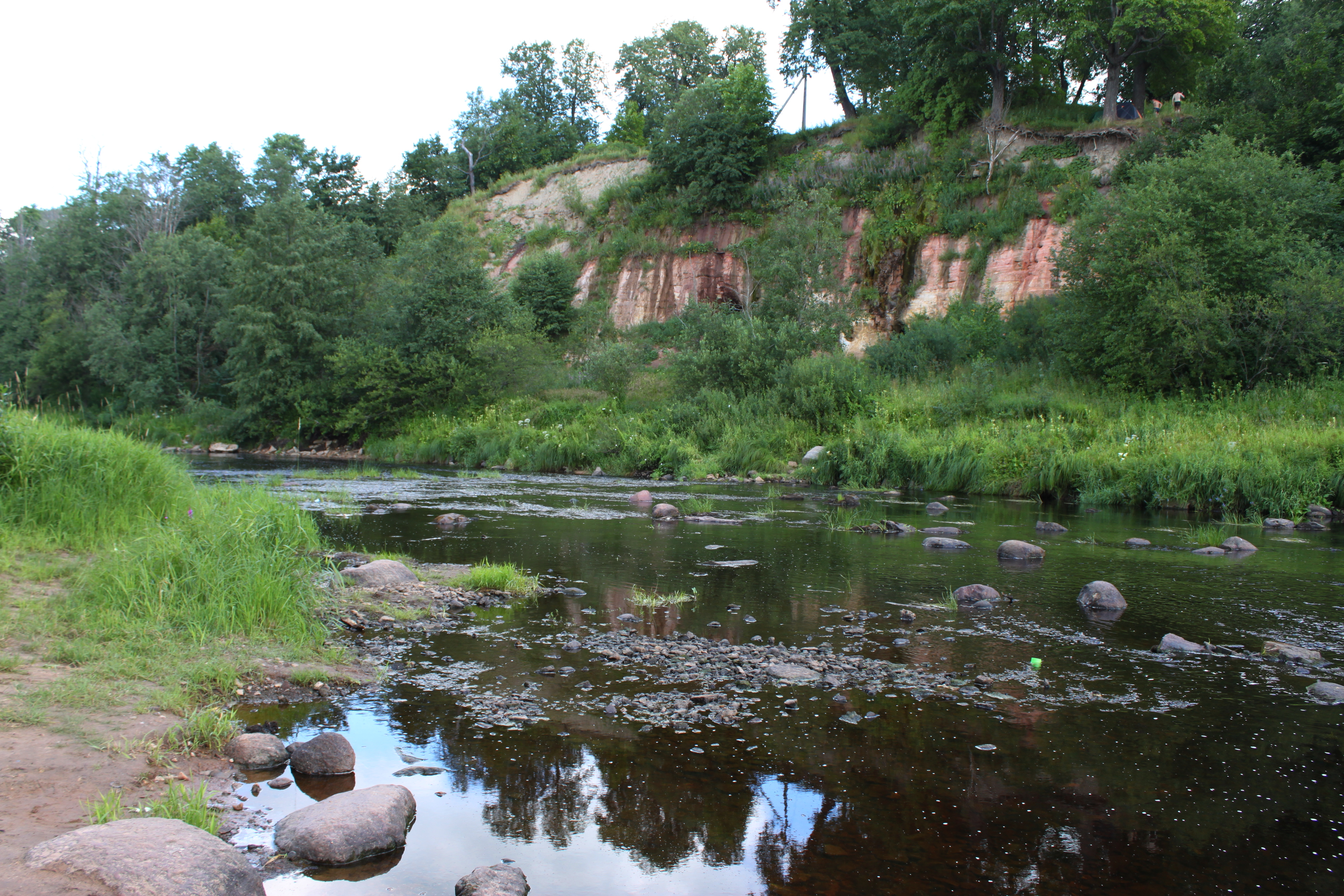 river in Leningrad Oblast